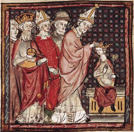 Louis the Pious.